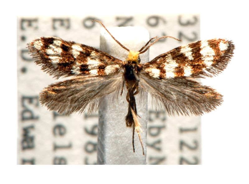 Lophocorona